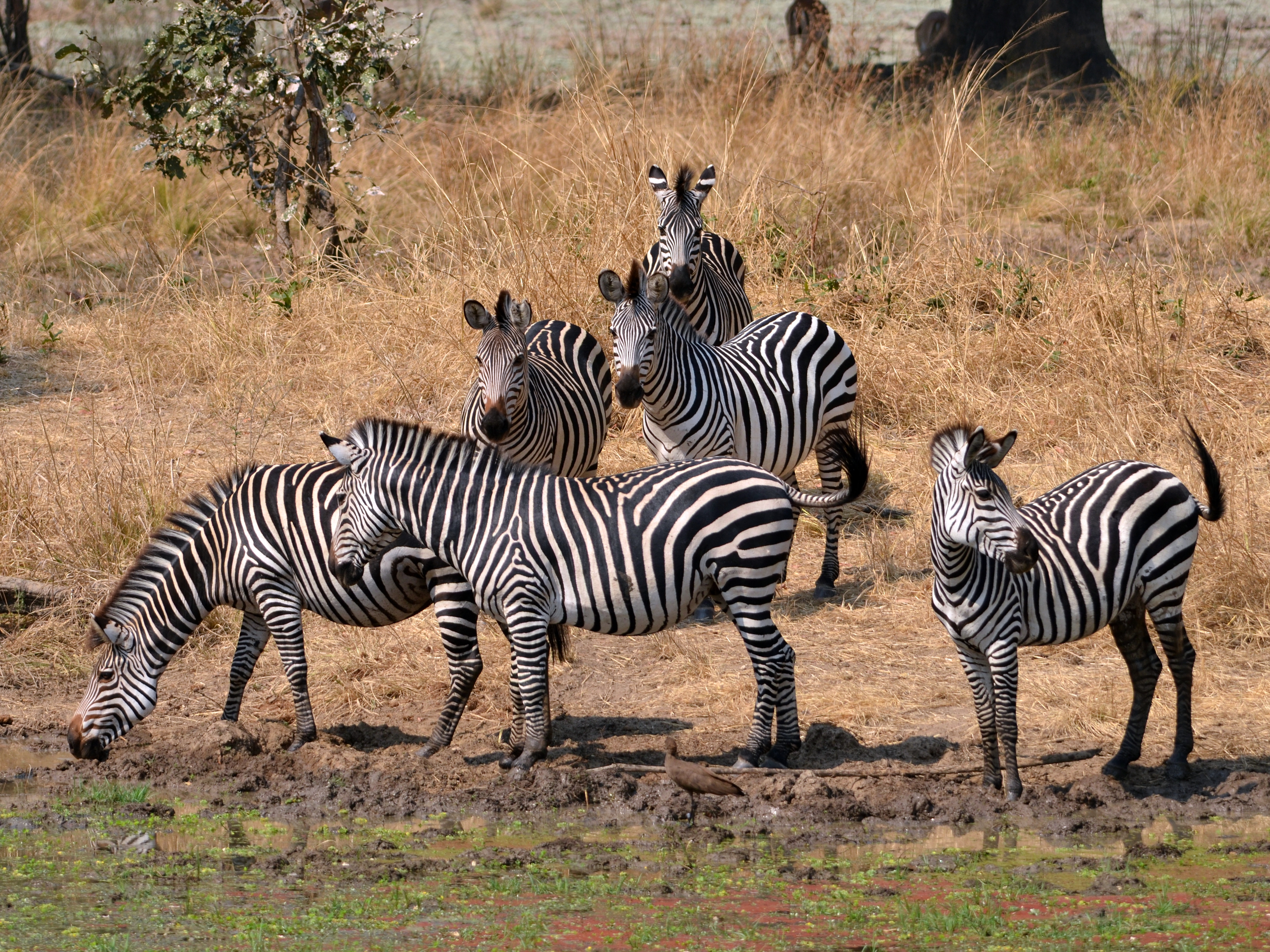 Grant's Zebras near Mfuwe Lodge at South Luangwa National Park, Zambia.